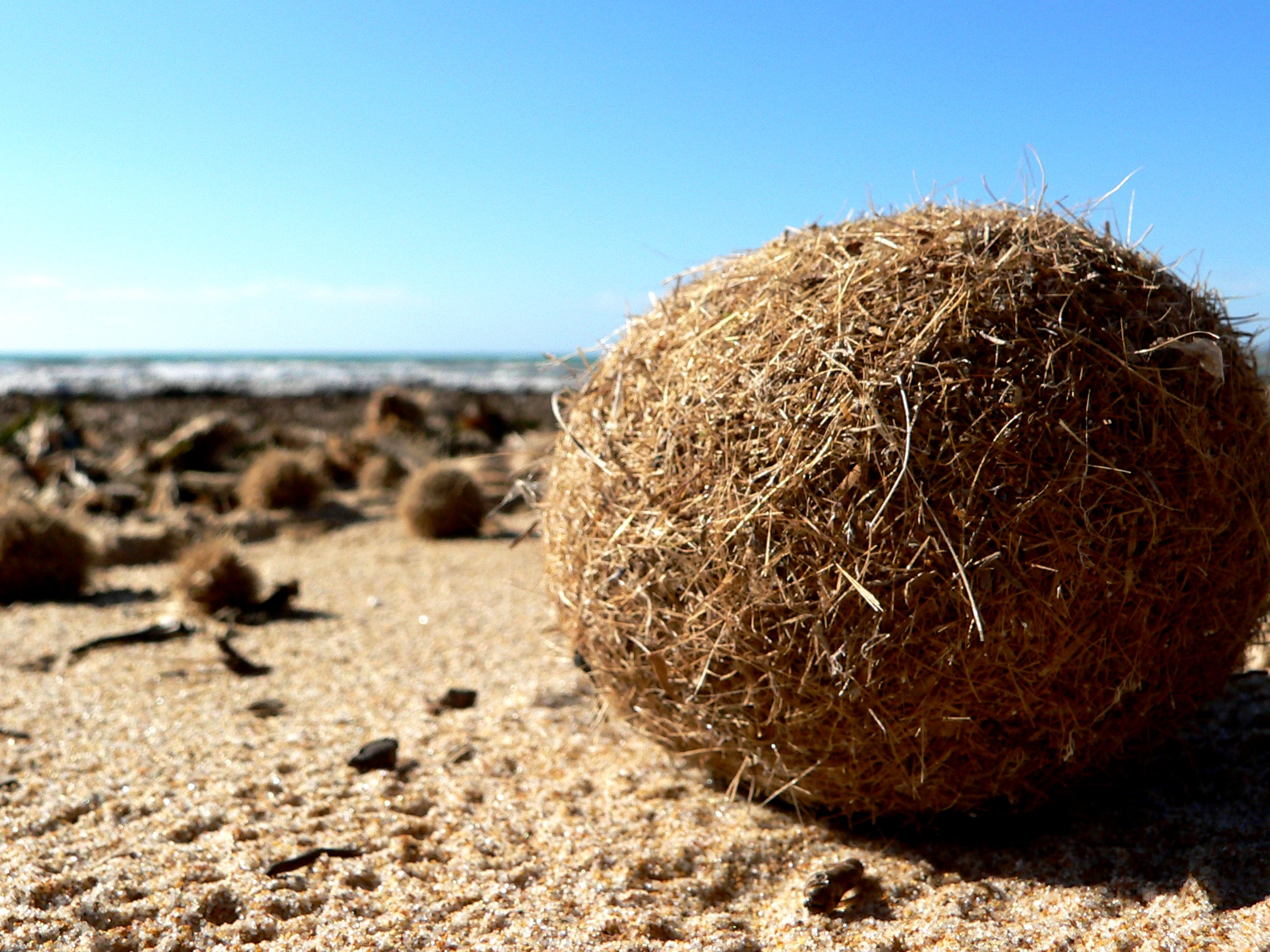 Posidonia oceanica spheroid on the beach, called Egagropili. Author: Ezu (Martino A. Sabia) Source URL: Content: aegagropilae,egagropili,Posidonia spheroids.